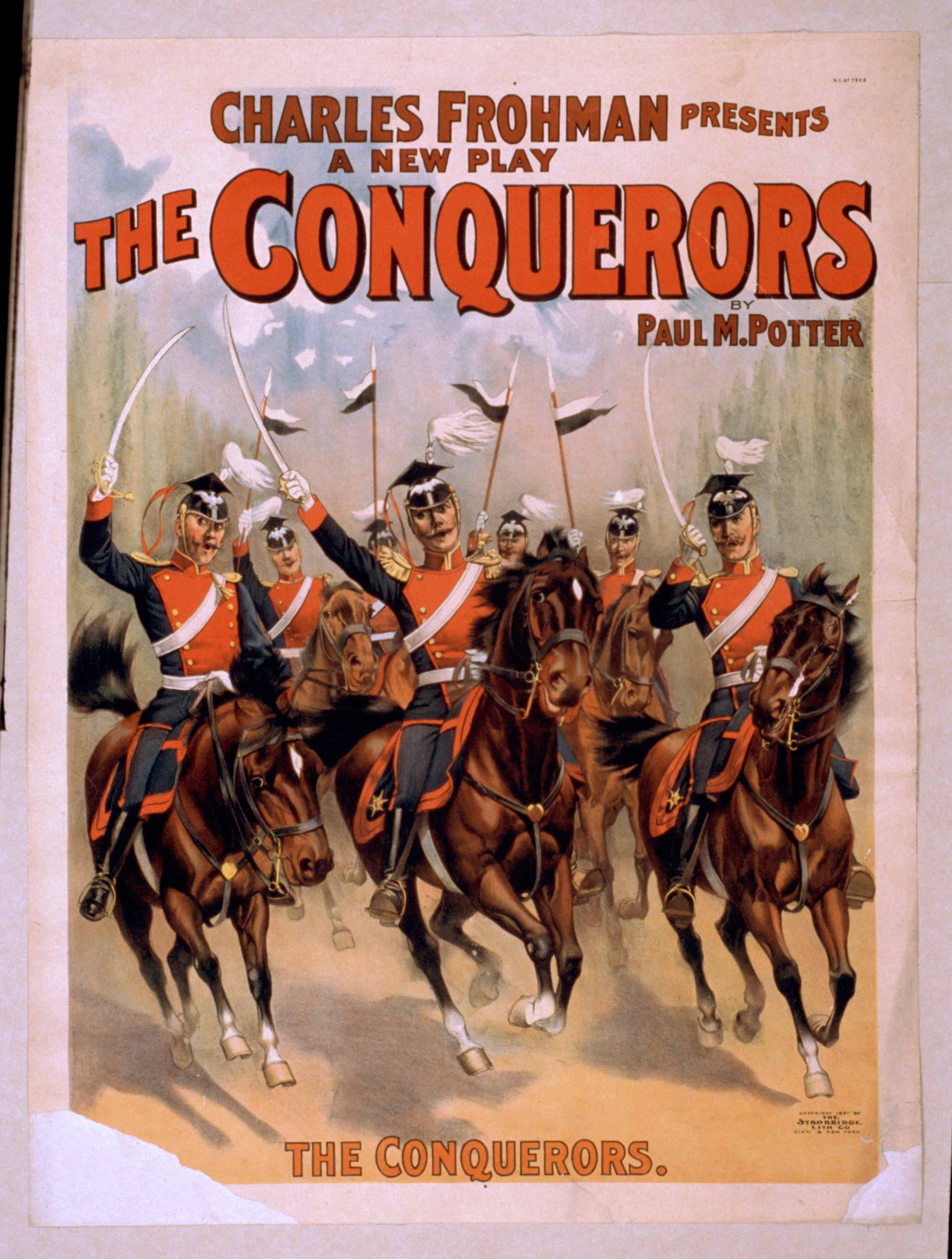 Title: Charles Frohman presents a new play, The conquerors by Paul M. Potter. Abstract/medium: 1 print : color lithograph ; sheet 100 x 75 cm. (poster format)